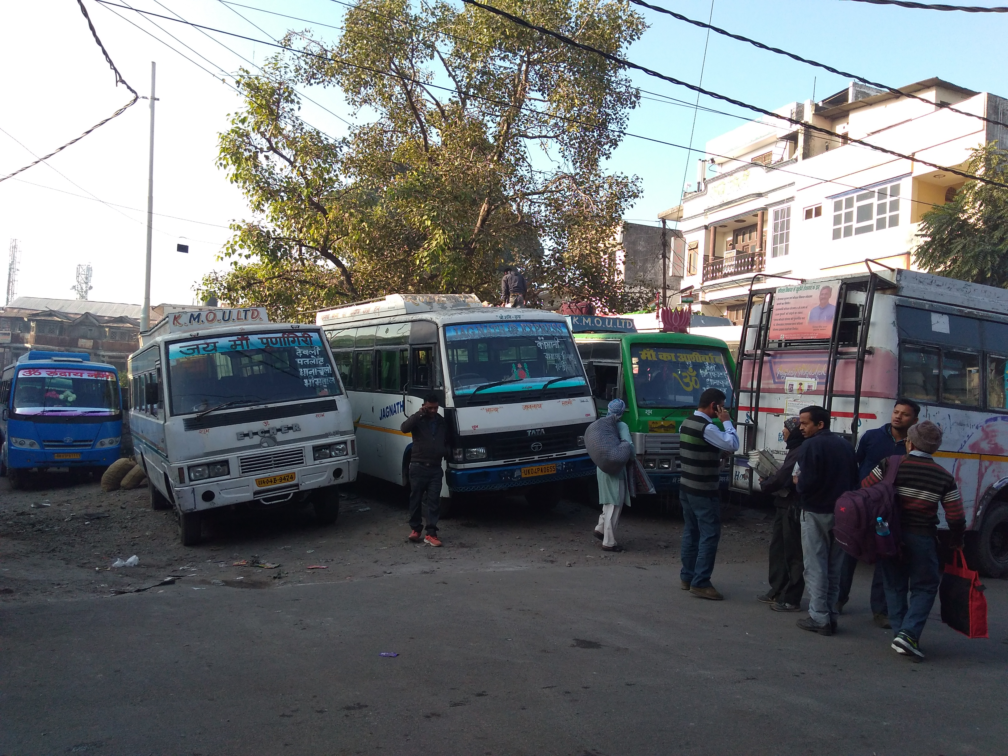 Buses at K.M.O.U. Bus Station, Hadwani